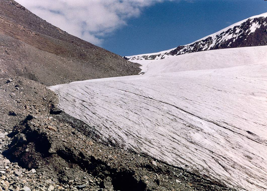 Glacier in Tian Shan mountain range